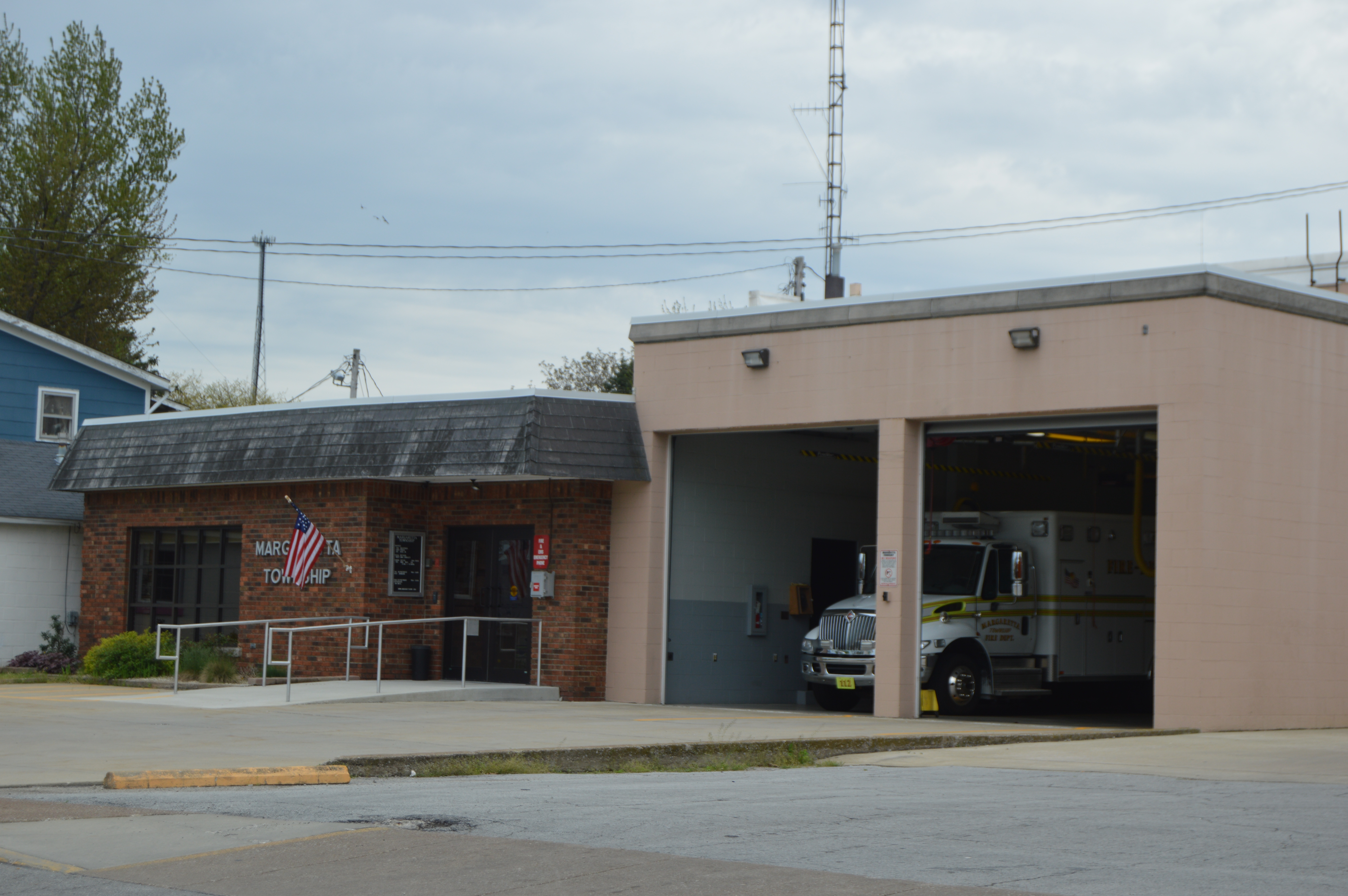 Front of the Margaretta Township town hall and fire department, located along State Route 101 at 113 South Avenue in Castalia, Ohio, United States. It was built in 1958.